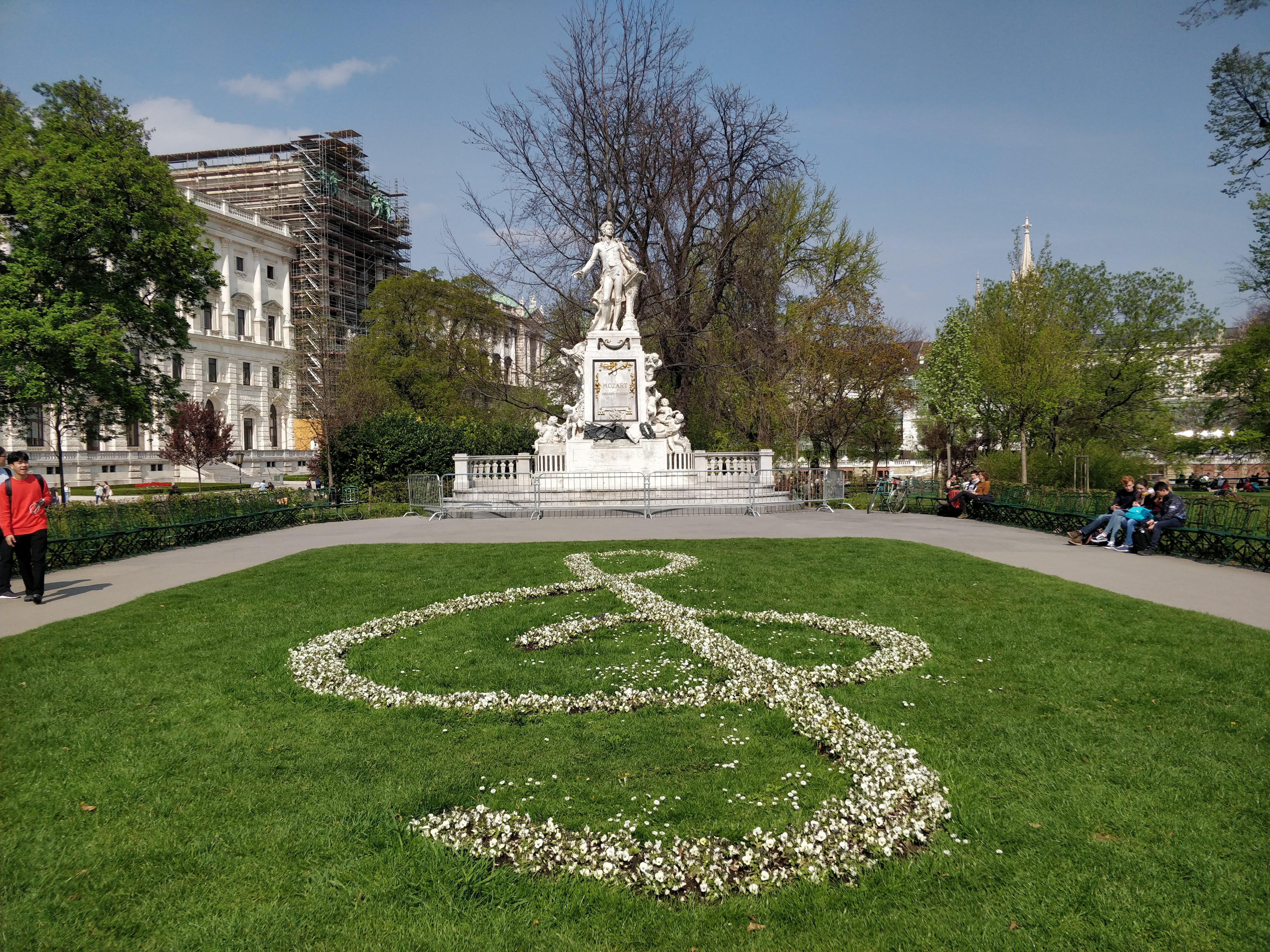 Statue of Mozart during spring in Vienna, Austria